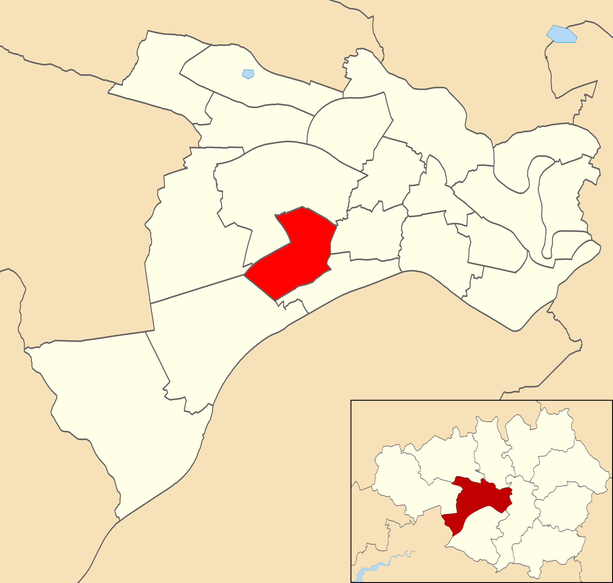 Map showing location of Winton ward within Salford City Council.